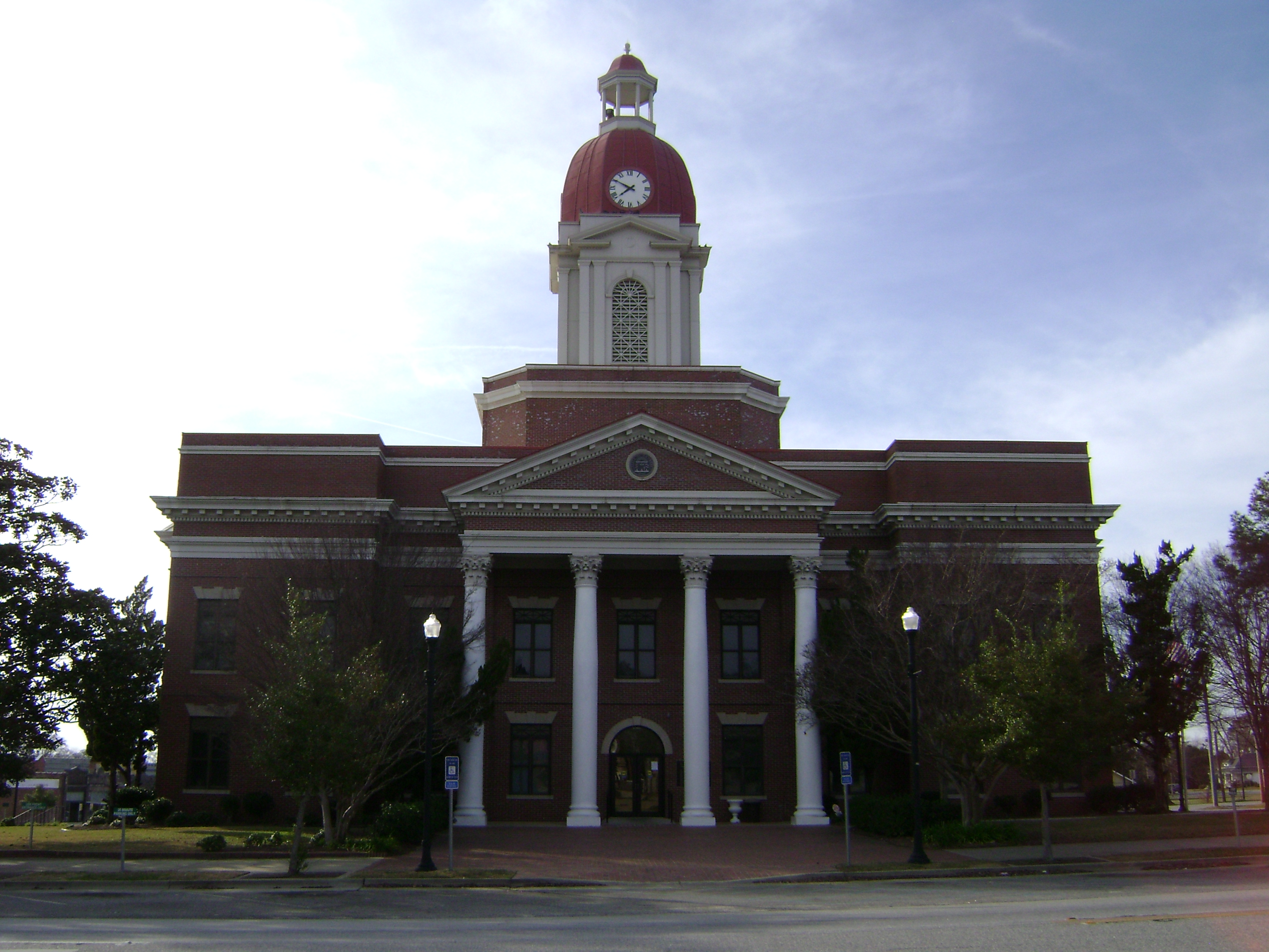 Worth County Courthouse, (east face), N. Main St., Sylvester, Worth County, Georgia